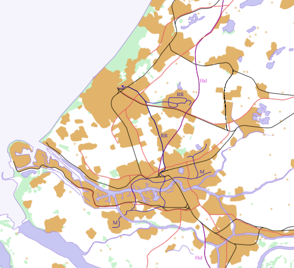 Randstad, detail southwest (ZW) (for locator map)